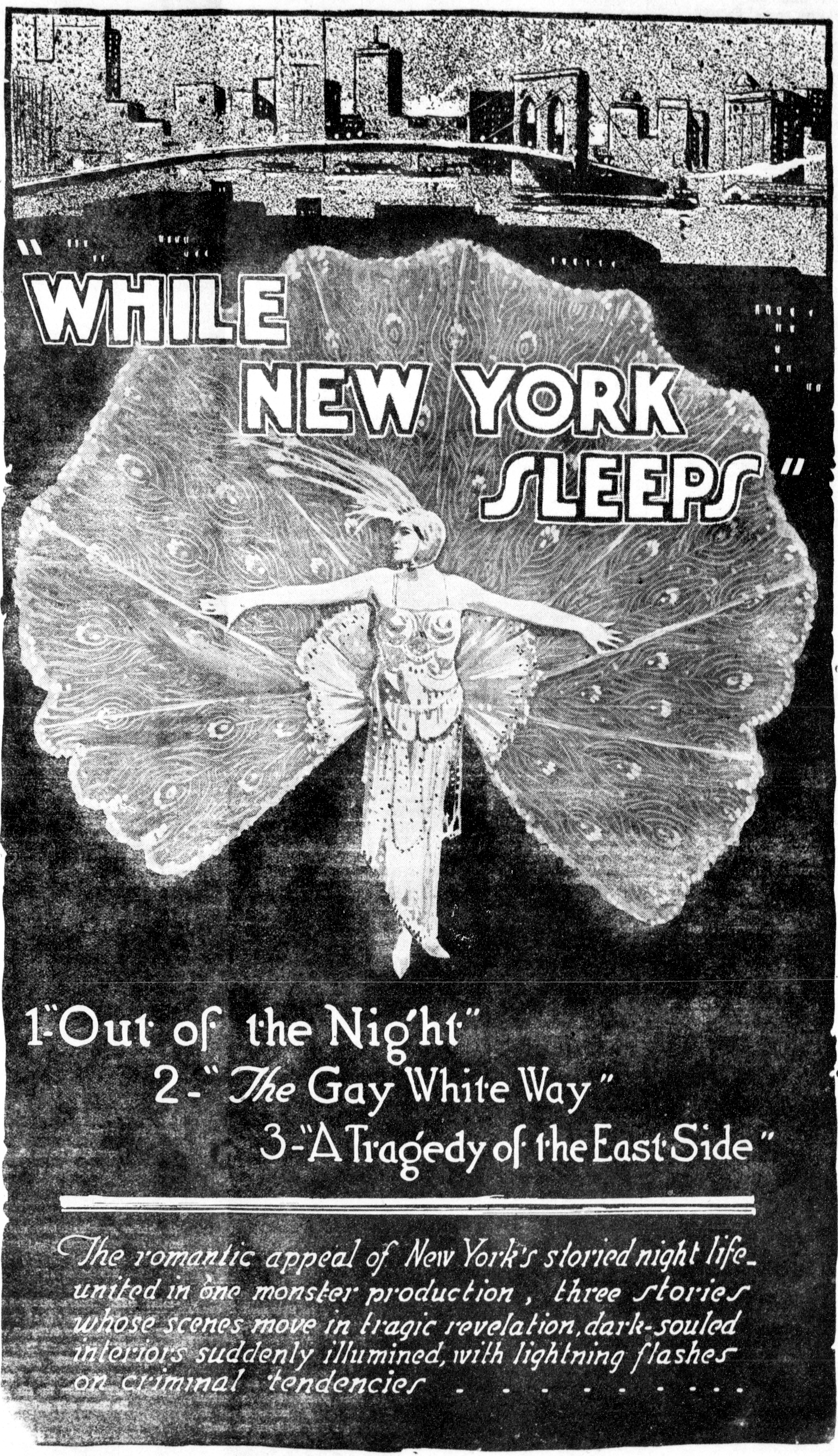 While New York Sleeps (1920) is a crime drama produced by Fox Film Corporation and directed by Charles Brabin, then husband of Theda Bara. The film tells three distinct episodic stories using the same actors, Estelle Taylor and Marc McDermott. This is from a newspaper advertisement.